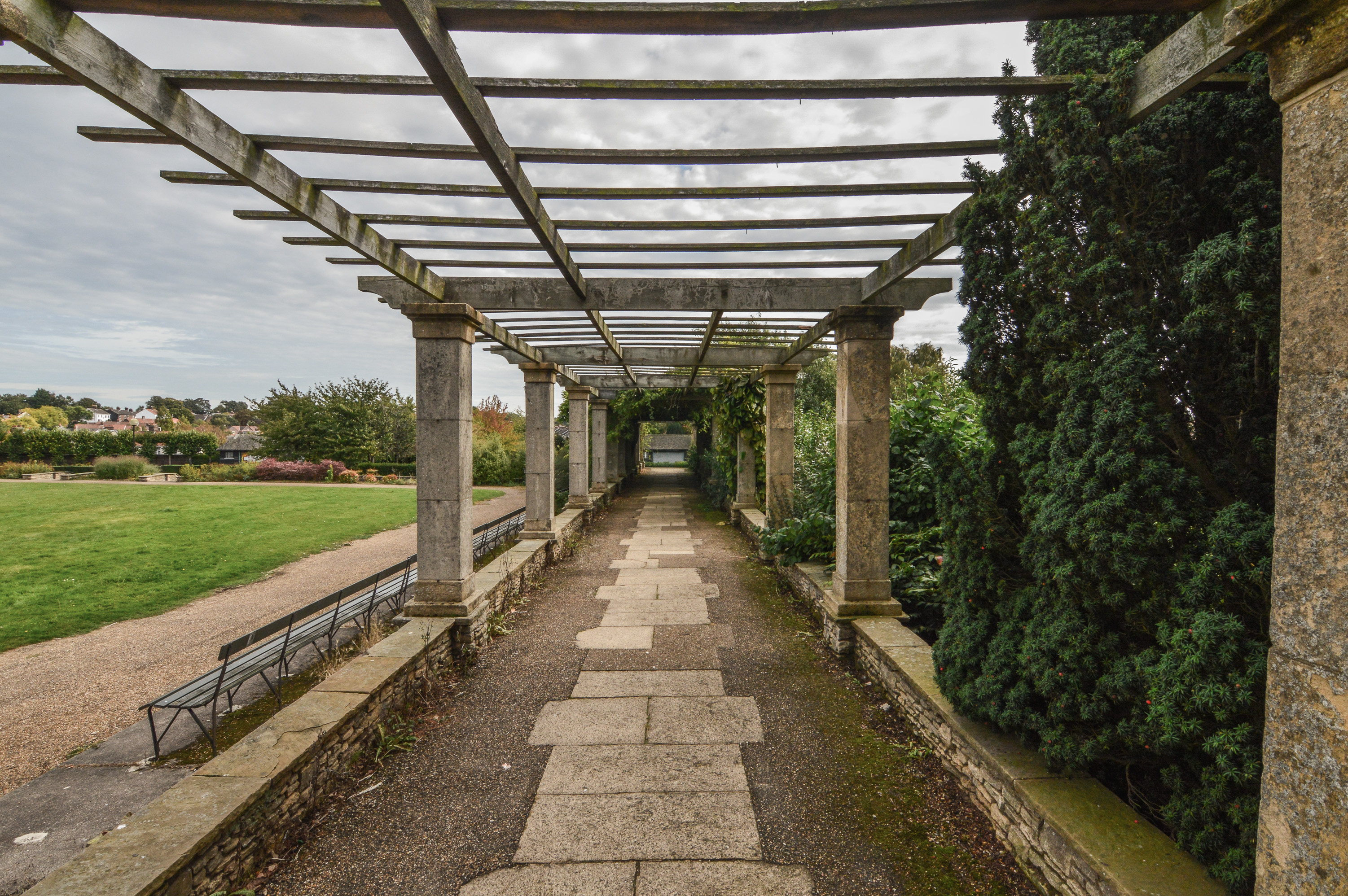 CENTRAL PERGOLAS AND ATTACHED WALLS WATERLOO PARK NORWICH